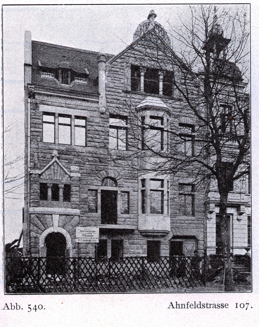 Wohnhaus Ahnfeldstraße 107 in Düsseldorf, erbaut vor 1904, Hermann vom Endt, Straßenseite.jpg